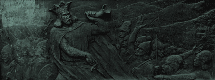 Stephen the Great gathering his troops after the Battle of Războieni, 1929 relief featured at the base of Mihai Eminescu statue, Iași (originally alongside a stanza from Eminescu's Doina, which has been deleted in 1946).